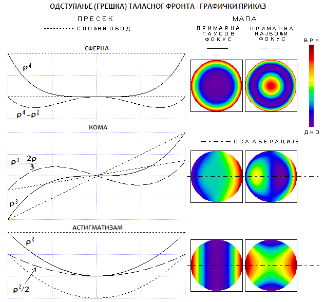 В-Д ГРЕШКА ТАЛАСНОГ ФРОНТА ЗА КЛАСИЧНЕ АБЕРАЦИЈЕ